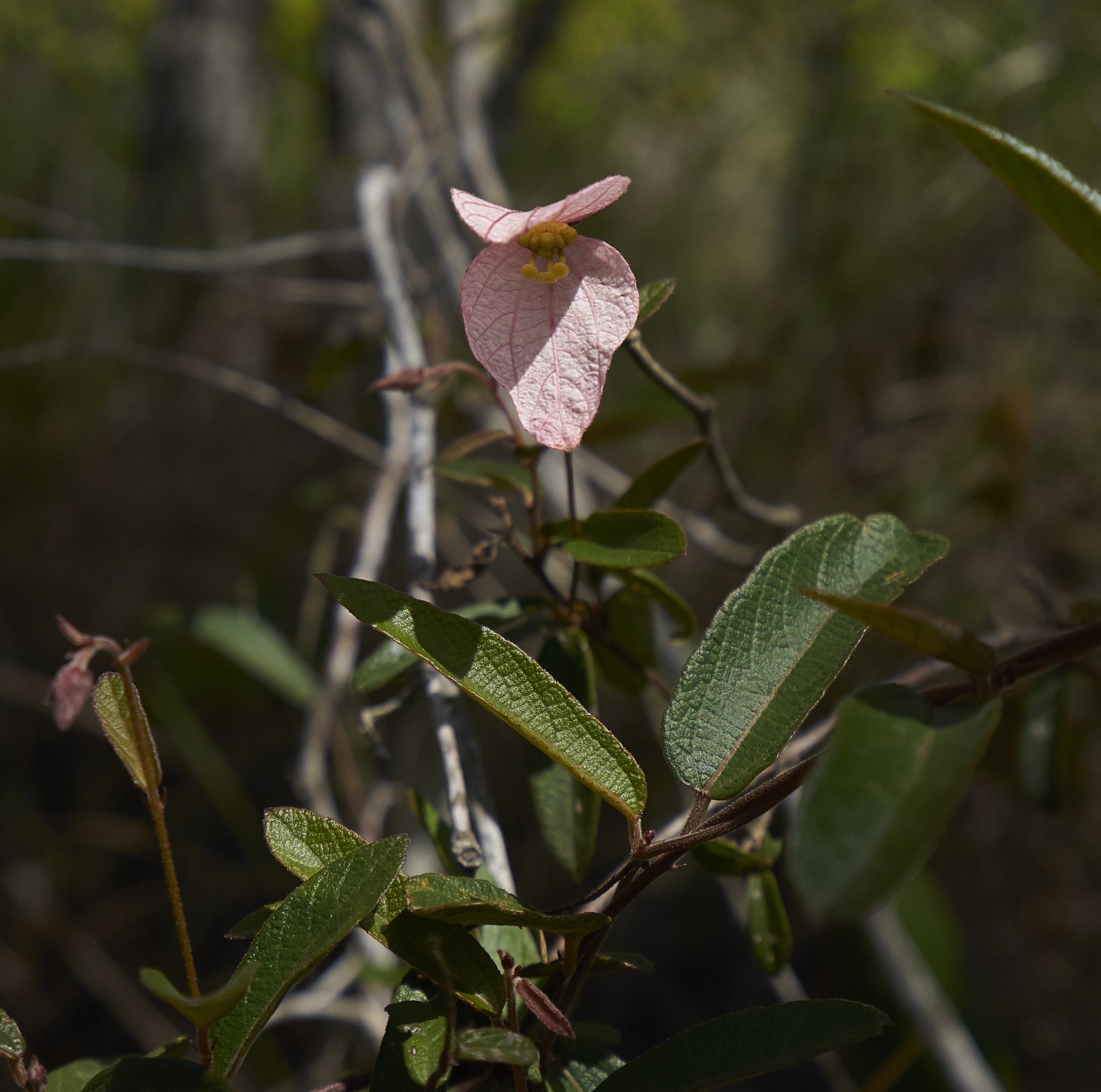 Dalechampia schippii, near Rio On Pools, Mountain Pine Ridge Forest Reserve, Cayo District, Belize The making of this document was supported by the Community-Budget of Wikimedia Germany.